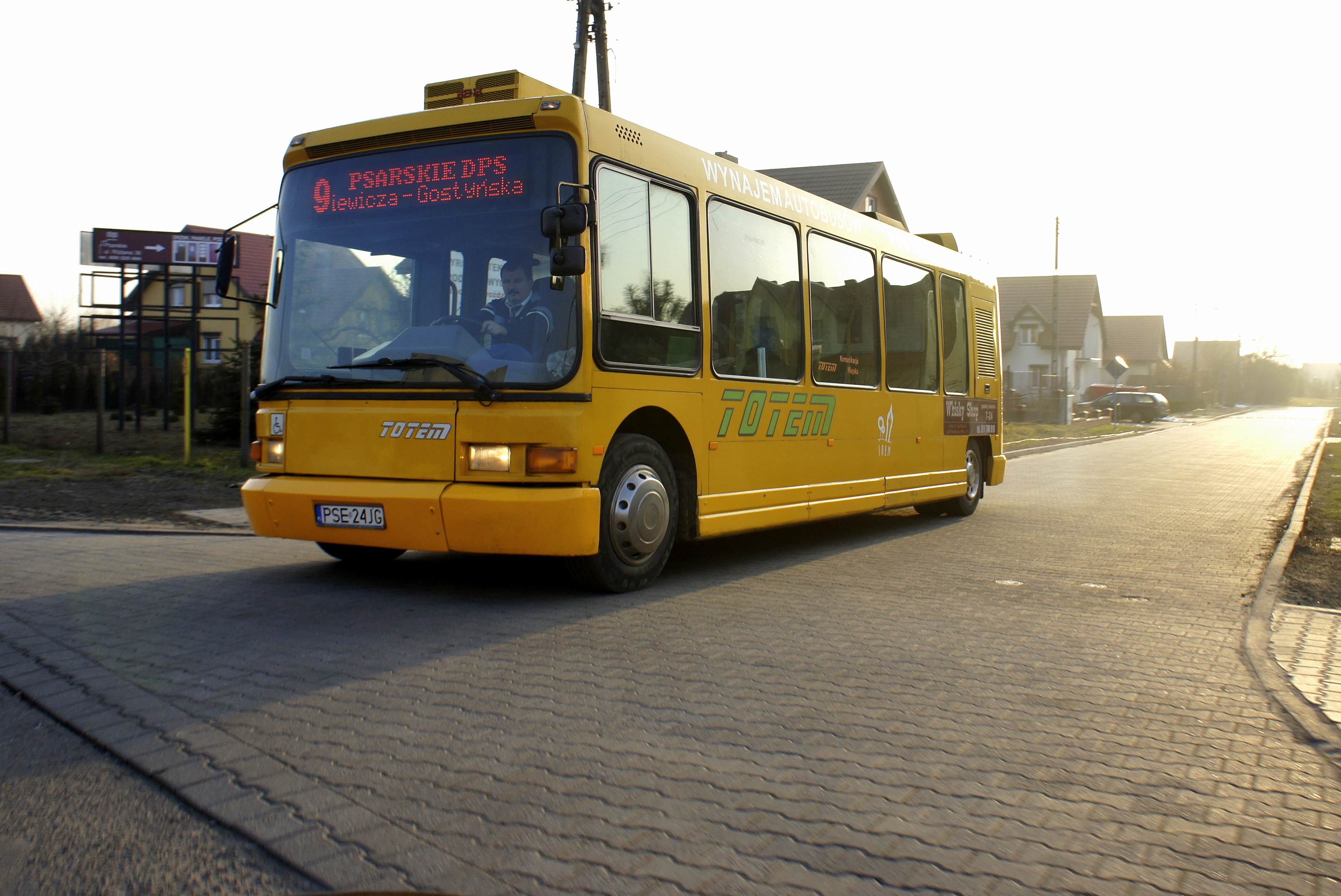 DAB 11-0860 S former bus in Śrem, Poland